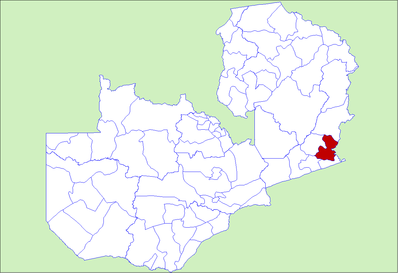 District locator in Zambia